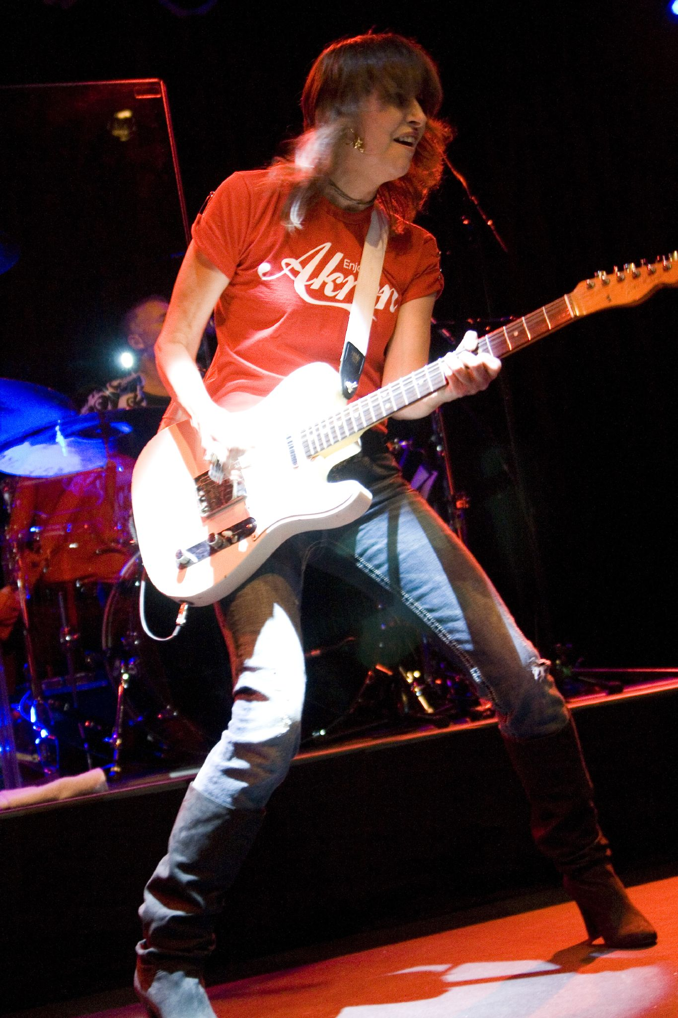 The Pretenders @ Highline Ballroom, NYC, 10/7/08